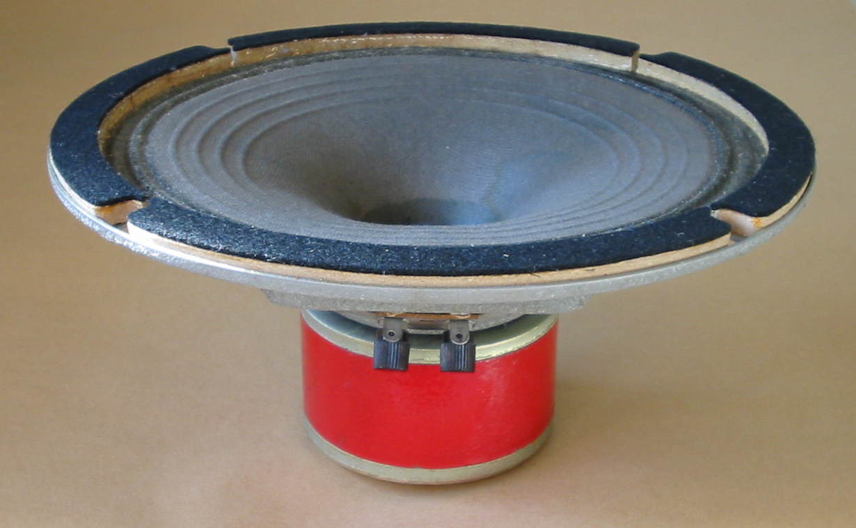 Goodmans Axiette speaker was one of the first of the single-cone truly full-range drivers with smooth and extended response of 40 Hz to 15 kHz. Goodmans Axiette was Ted Jordan's first project for Goodmans after joining them in 1952.